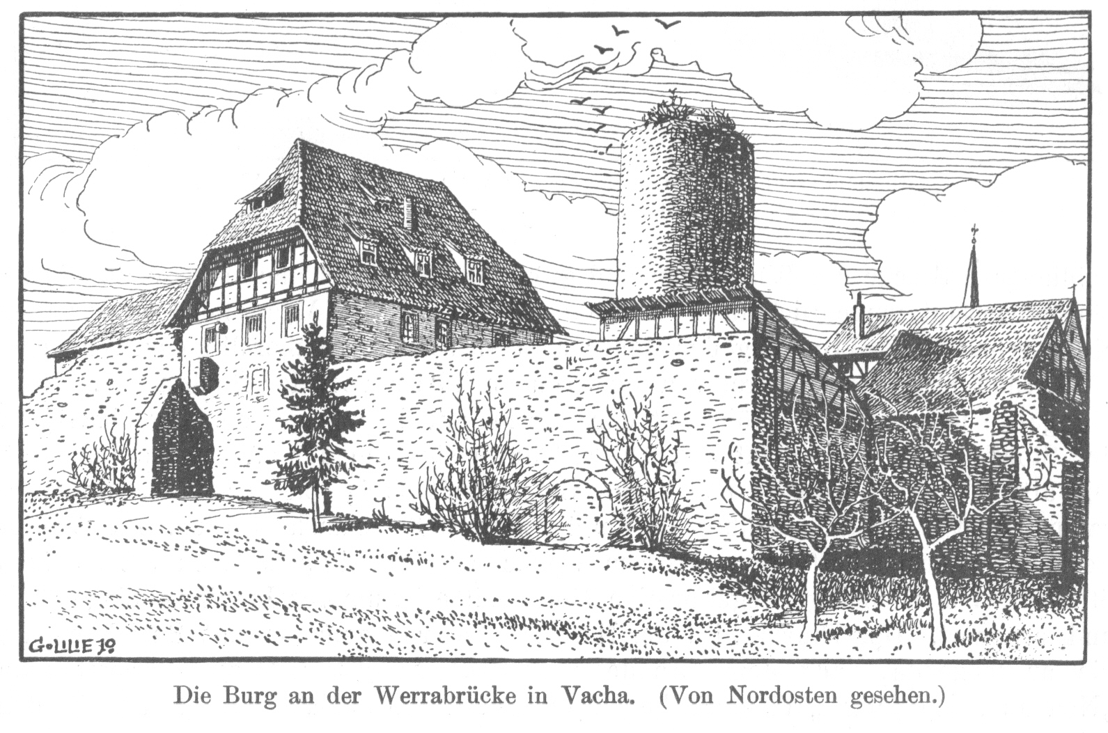 The castle in Vacha.